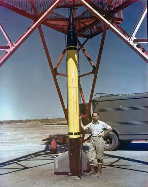 Former JPL Director Frank Malina with a WAC Corporal rocket at the White Sands Missile Range.